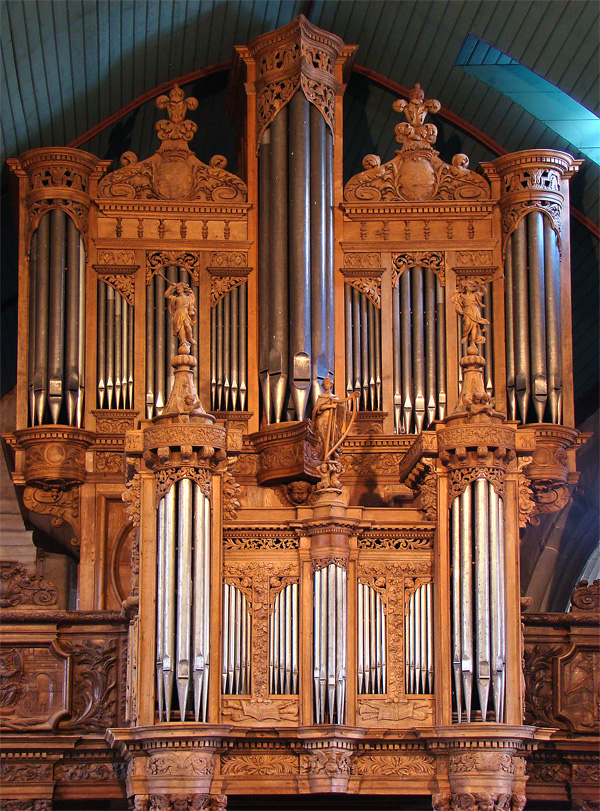 Parish close, Guimiliau, Finistère, Bretagne, France. Dallam organ (1677) with 32 registers, restored in 1989 by the organ builder Gérald Guillemin from Malaucène.